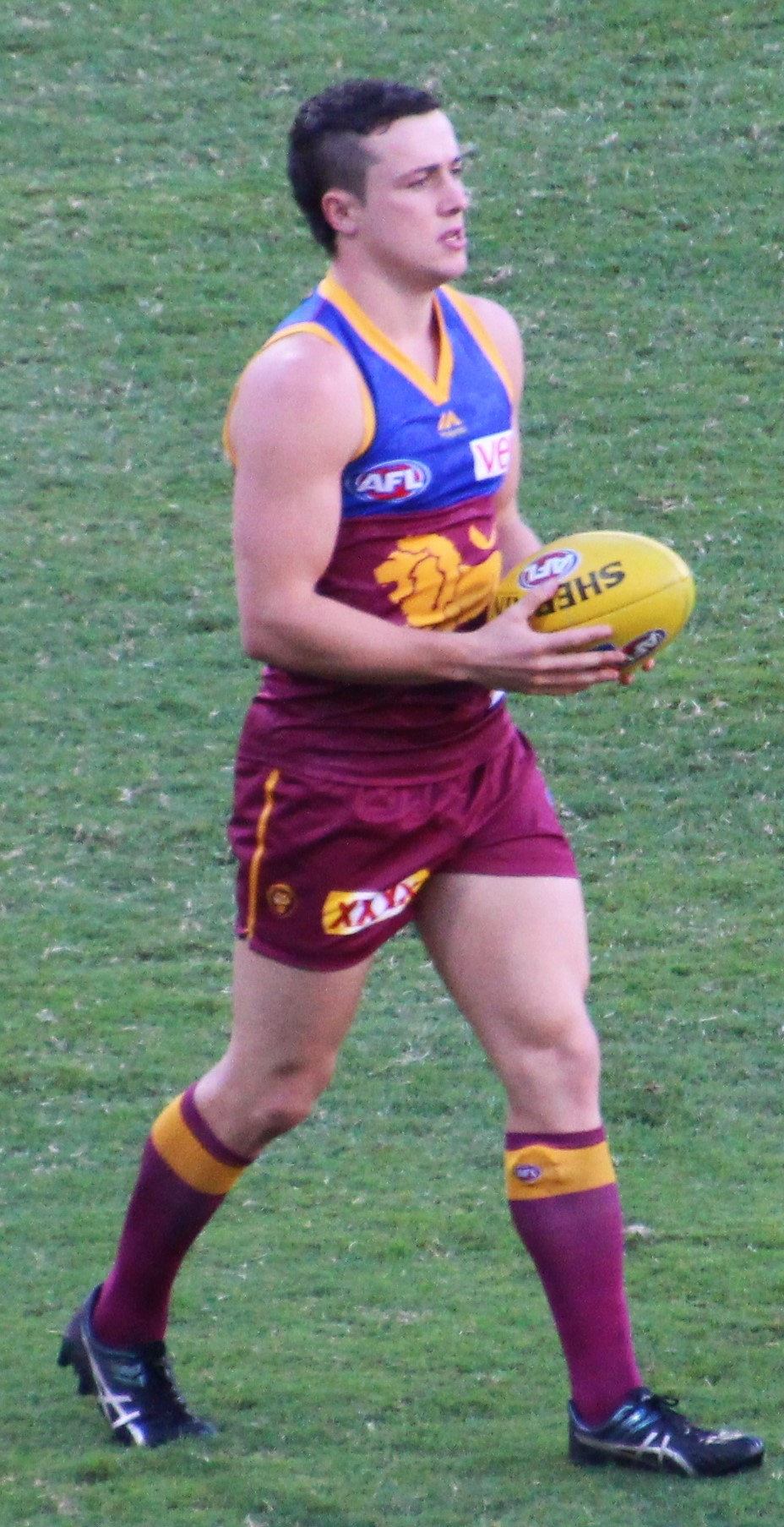 Lewis Taylor at the Round 6, 2017 game for the Brisbane Lions against Port Adelaide.